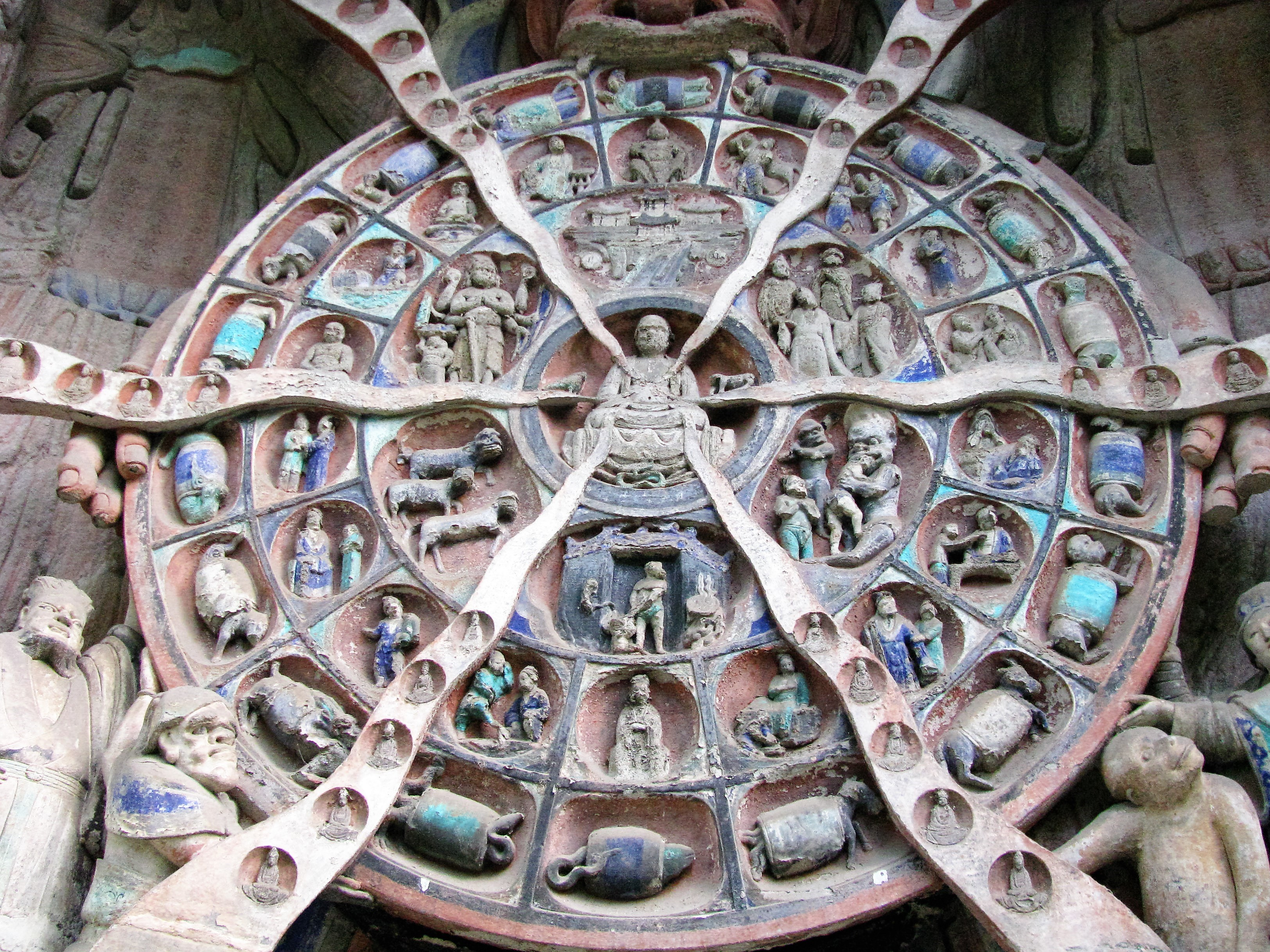 Buddhist Wheel of Life, in Baodingshan historic site, Dazu Rock Carvings, Sichuan, China, dating from Song of the South dynasty ( AD 1174-1252).It stands in the hands of Anicca ( the impermanence), one of the three marks of existence as understood by Buddhists. Six reincarnations of all living creatures are displayed in the wheel, and show the Buddhist karma and retribution.